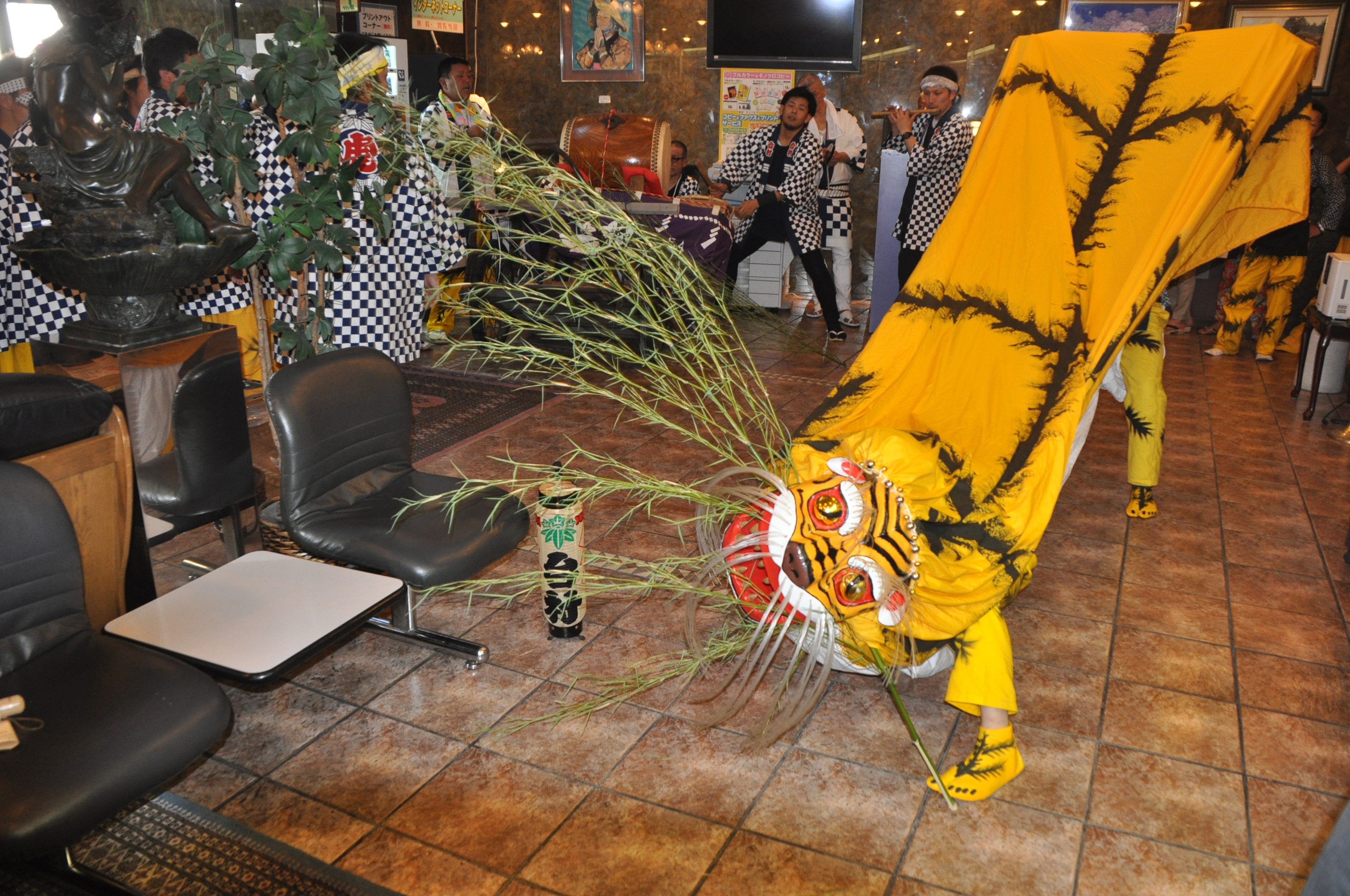 Tiger dance of Kamaishi, Japan, 2 perforned in the lobby of a hotel in Kitakami City